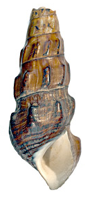 Apertural view of a shell of Brotia episcopalis.